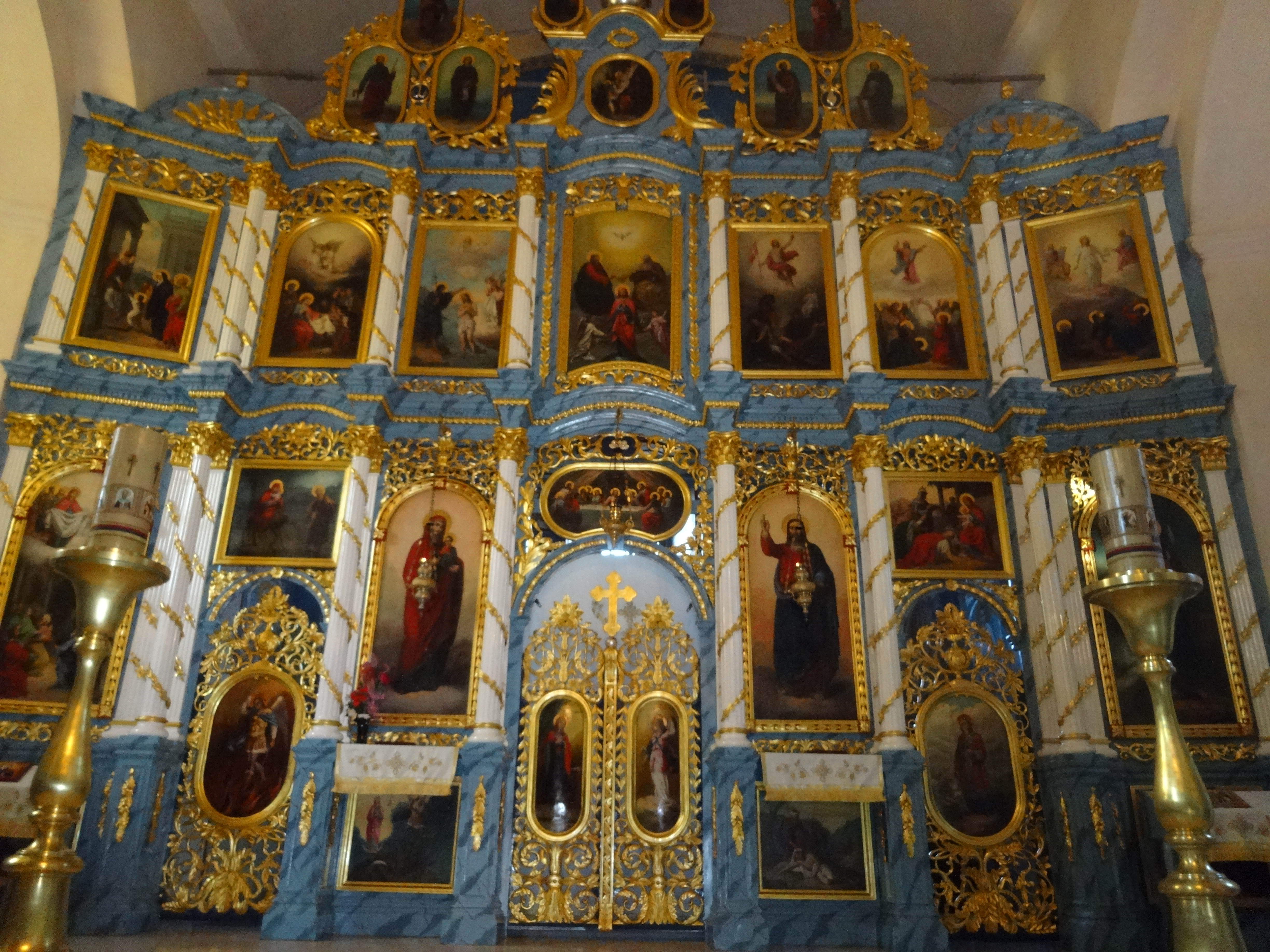 Valjevo, Church of Virgin Mary